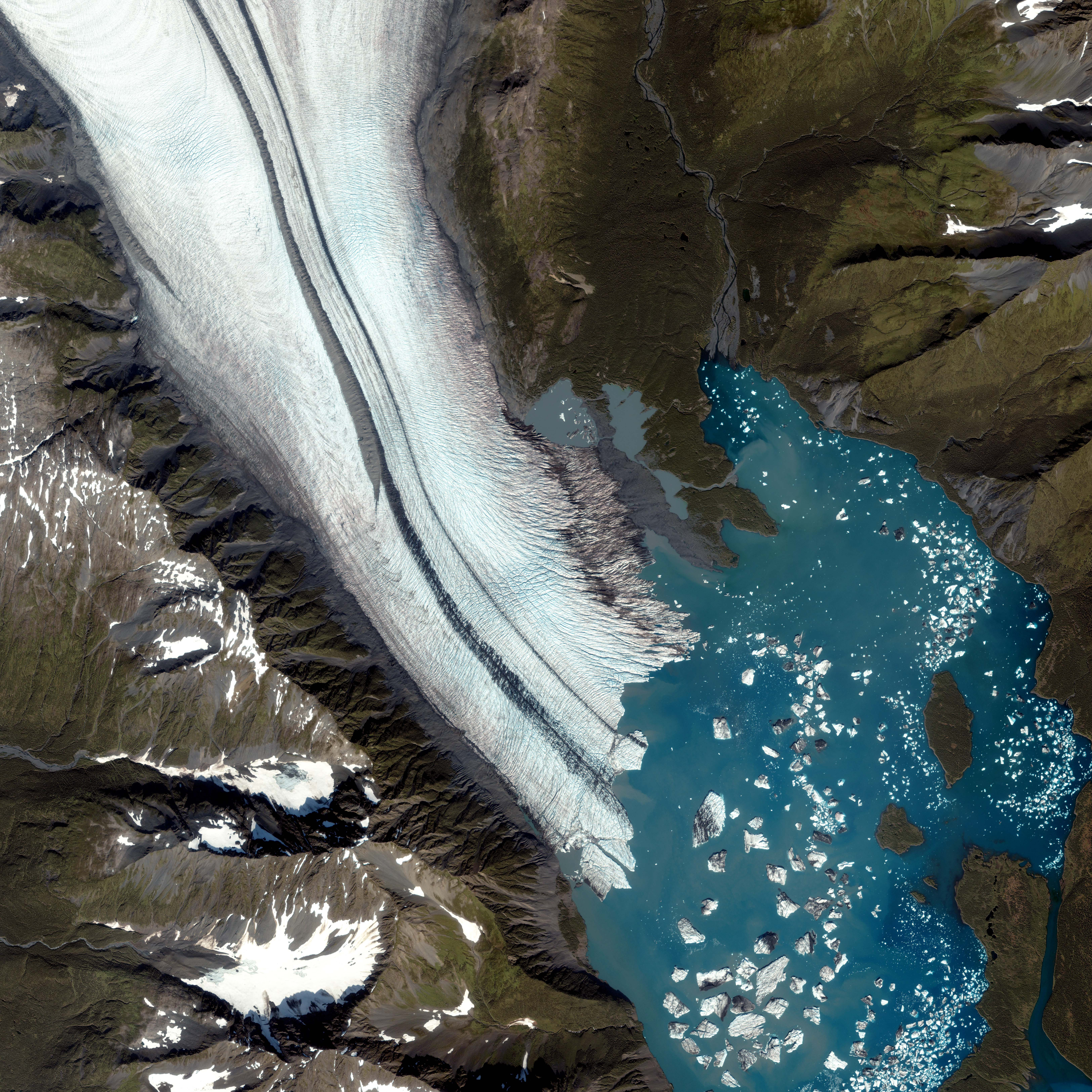 The Bear Glacier in the Kenai Peninsula along the Gulf of Alaska bears multiple clues about its past.